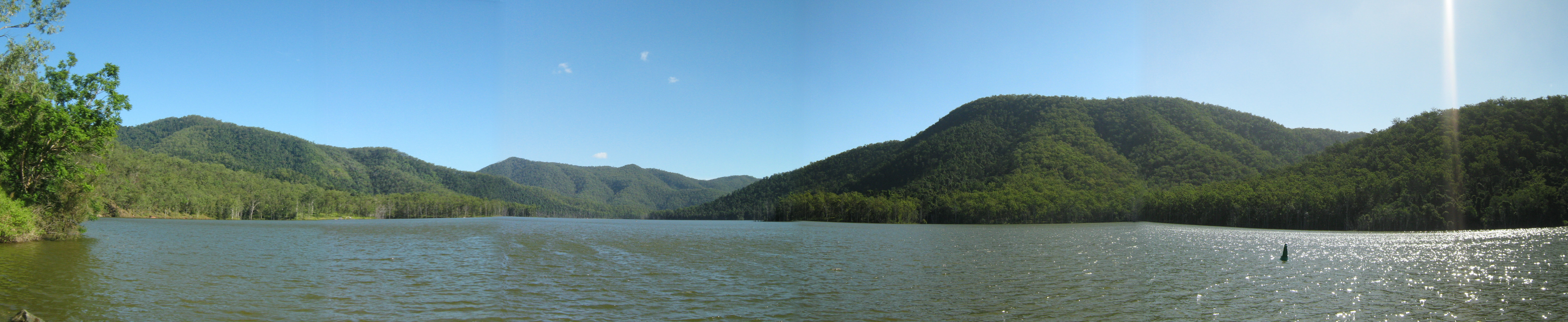 Panorama photograph of Lake Borumba, near Imbil, Queensland, Australia